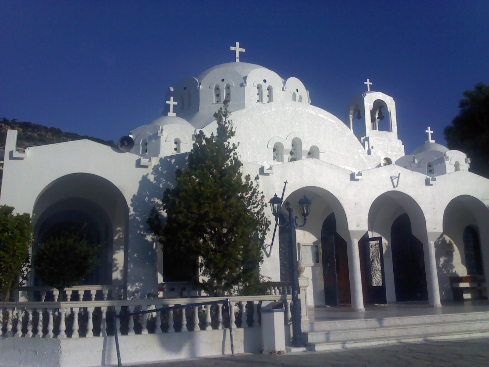 Agia Marina Koropiou